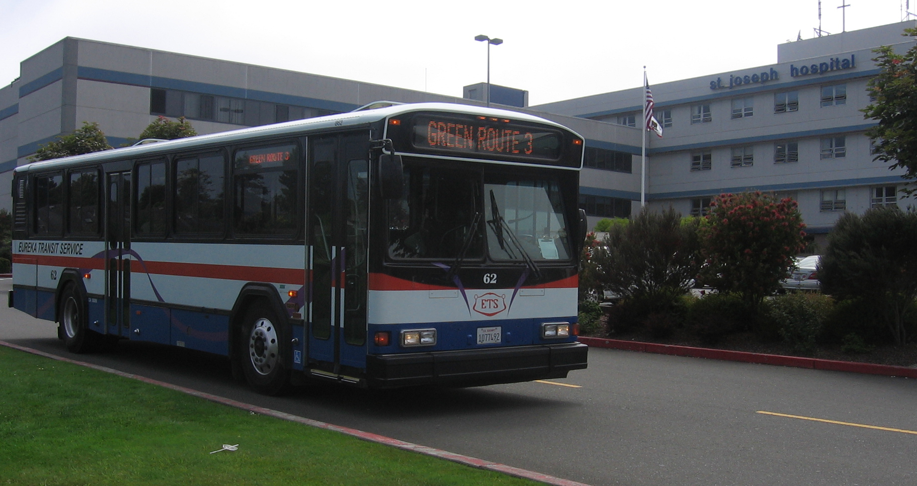 Gillig Phantom 62 in front of St. Joseph Hospital, in the current Eureka Transit Service colors.